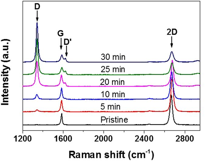 Raman spectra of pristine graphene and benzoyl peroxide-functionalized graphene heated at 80 °C for 5 min, 10 min, 20 min, 25 min and 30 min in nitrogen atmosphere, respectively.